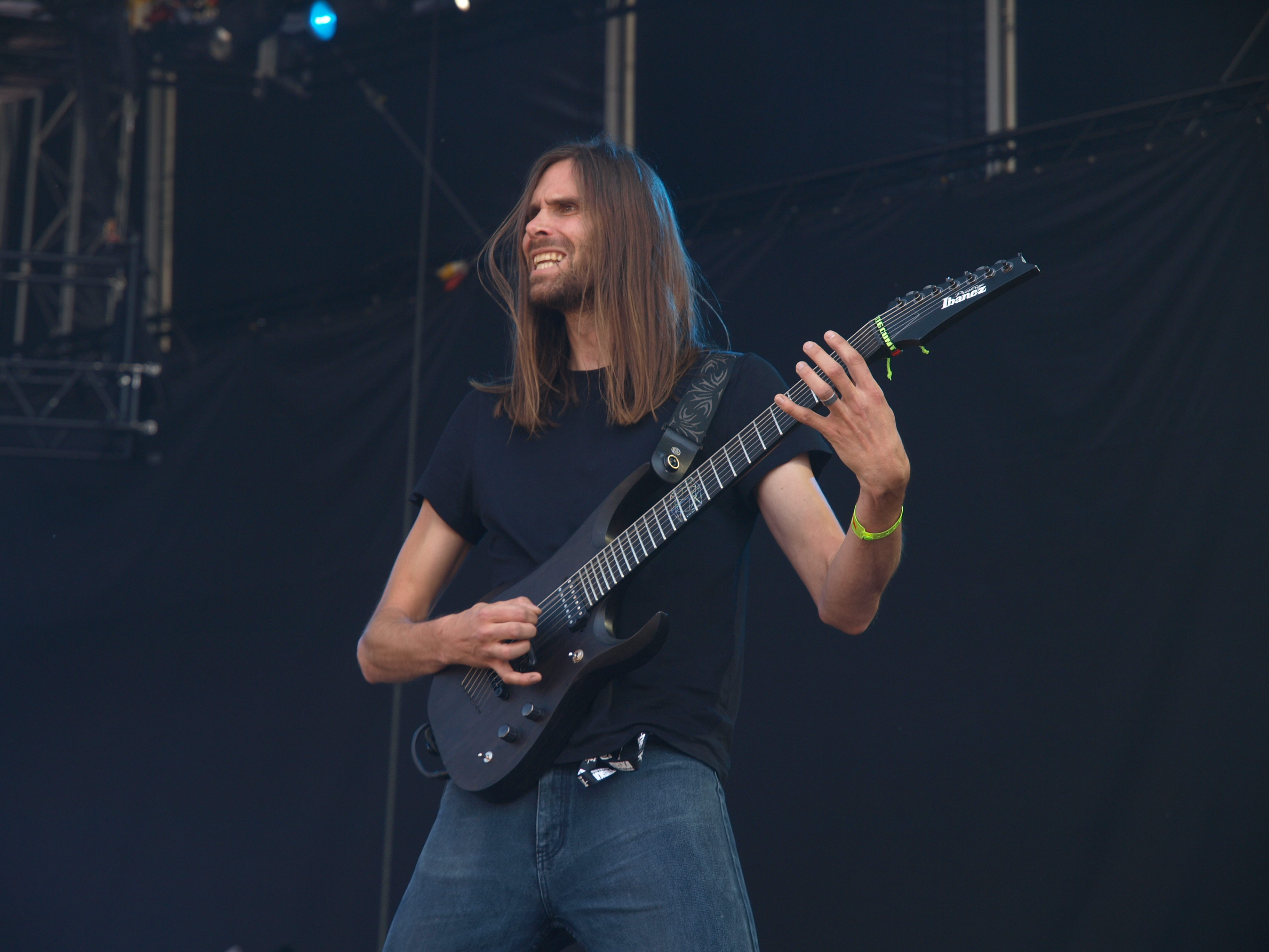 British band TesseractT live at Tuska Open Air 2013